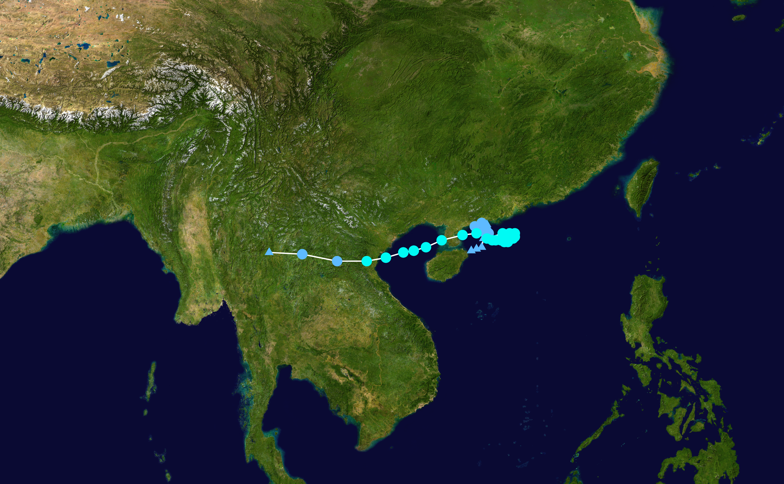 Track map of Tropical Storm Bebinca of the 2018 Pacific typhoon season. The points show the location of the storm at 6-hour intervals. The colour represents the storm's maximum sustained wind speeds as classified in the Saffir–Simpson scale (see below), and the shape of the data points represent the nature of the storm, according to the legend below. Saffir–Simpson scale Tropical depression≤38 mph≤62 km/h Category 3111–129 mph178–208 km/h Tropical storm39–73 mph63–118 km/h Category 4130–156 mph209–251 km/h Category 174–95 mph119–153 km/h Category 5≥157 mph≥252 km/h Category 296–110 mph154–177 km/h Unknown Storm type Tropical cyclone Subtropical cyclone Extratropical cyclone / Remnant low / Tropical disturbance / Monsoon depression